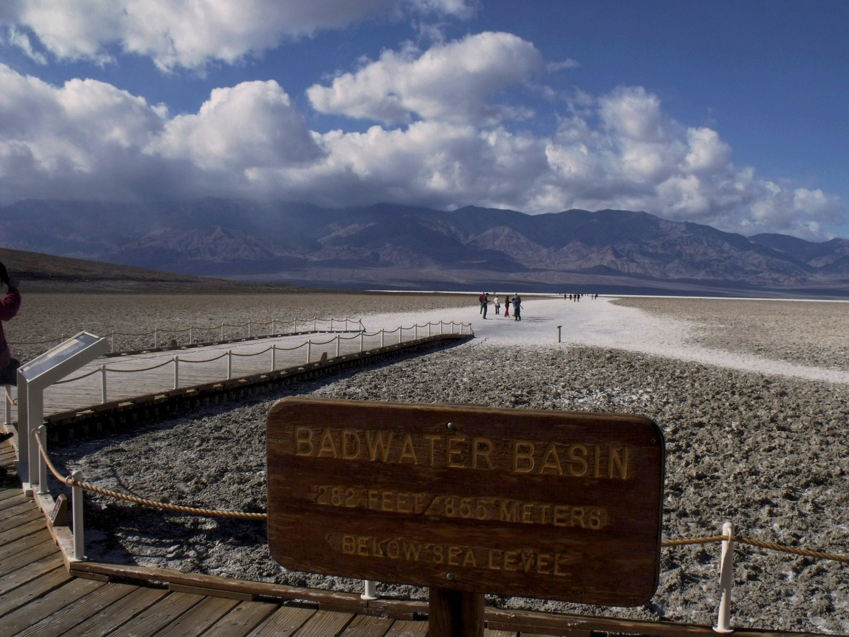 Badwater Basin with the Panamint Range in the distance, Death Valley, California.